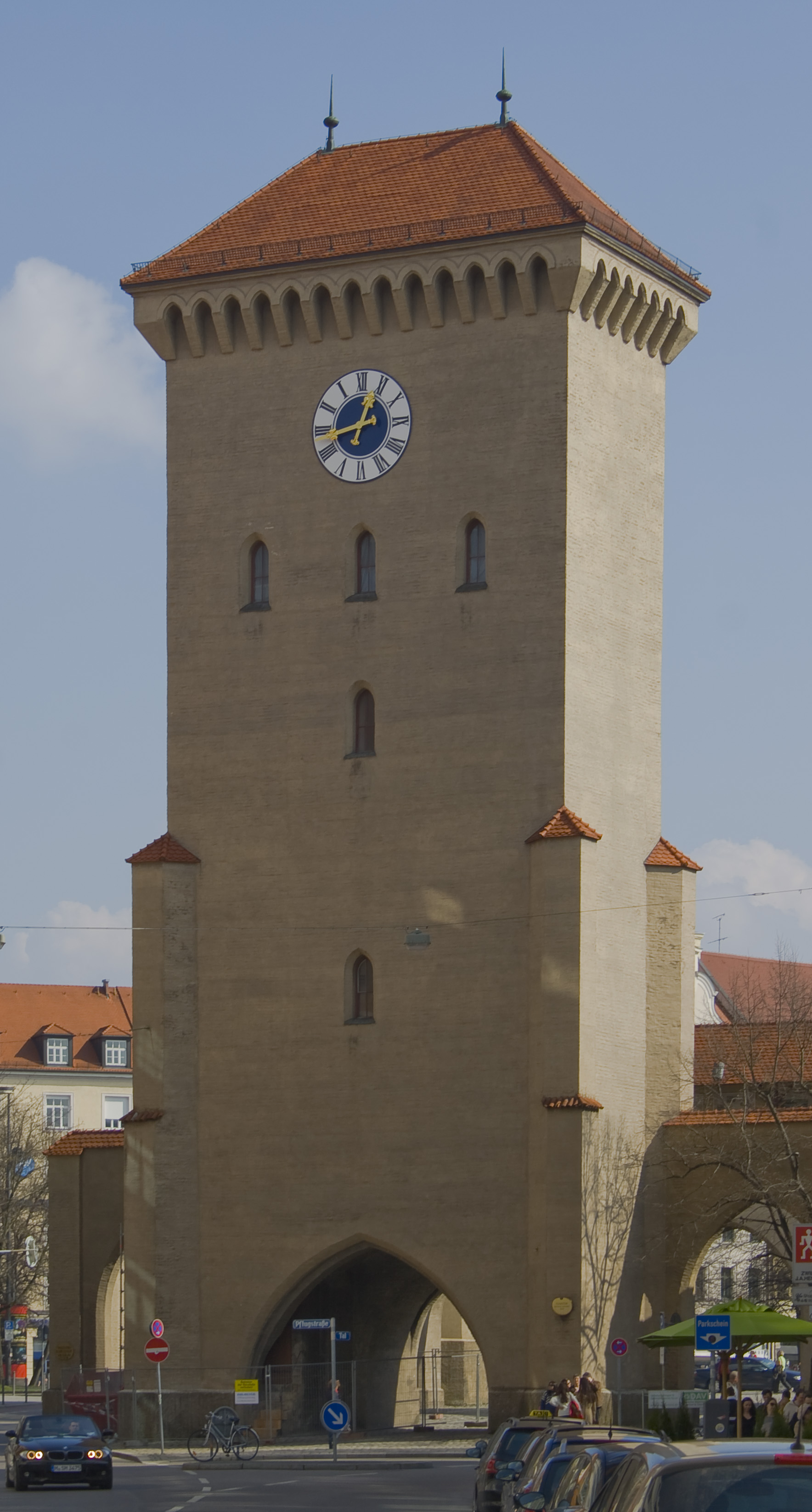 Isartor, Munich, Germany